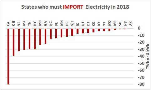 States who must IMPORT Electricity in 2018